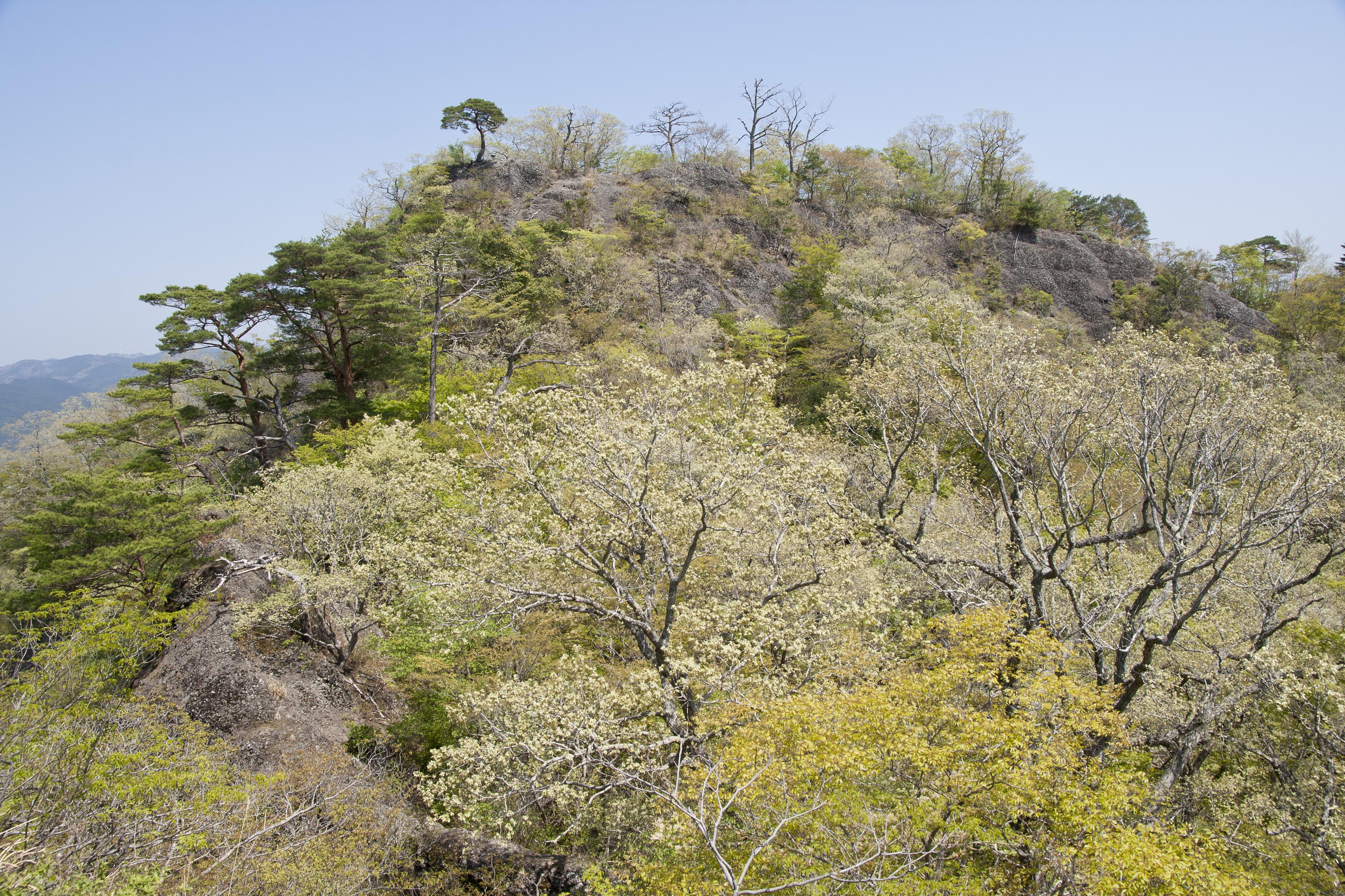 Mount Nabeashi(Nabeashi-yama), Hitachi-ota City, Ibaraki Pref., Japan